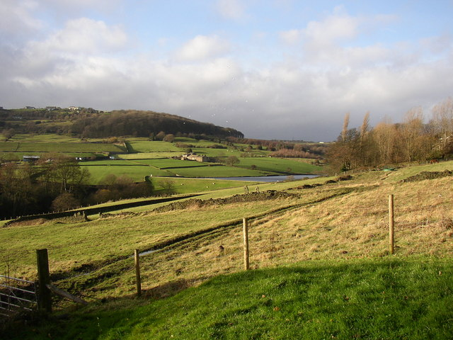 Longwood valley Beyond Dodlee Lane the built-up area ends and there is pleasant pasture. The compensation reservoir controls the flow in the beck, presumably because of abstraction for water supply. The farm beyond is called Leys, and the wood is Pighill Wood. Above this is Nettleton Hill.